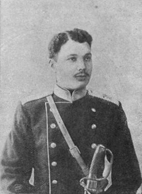 Kankrin, Graf Kilill Ivanovich.